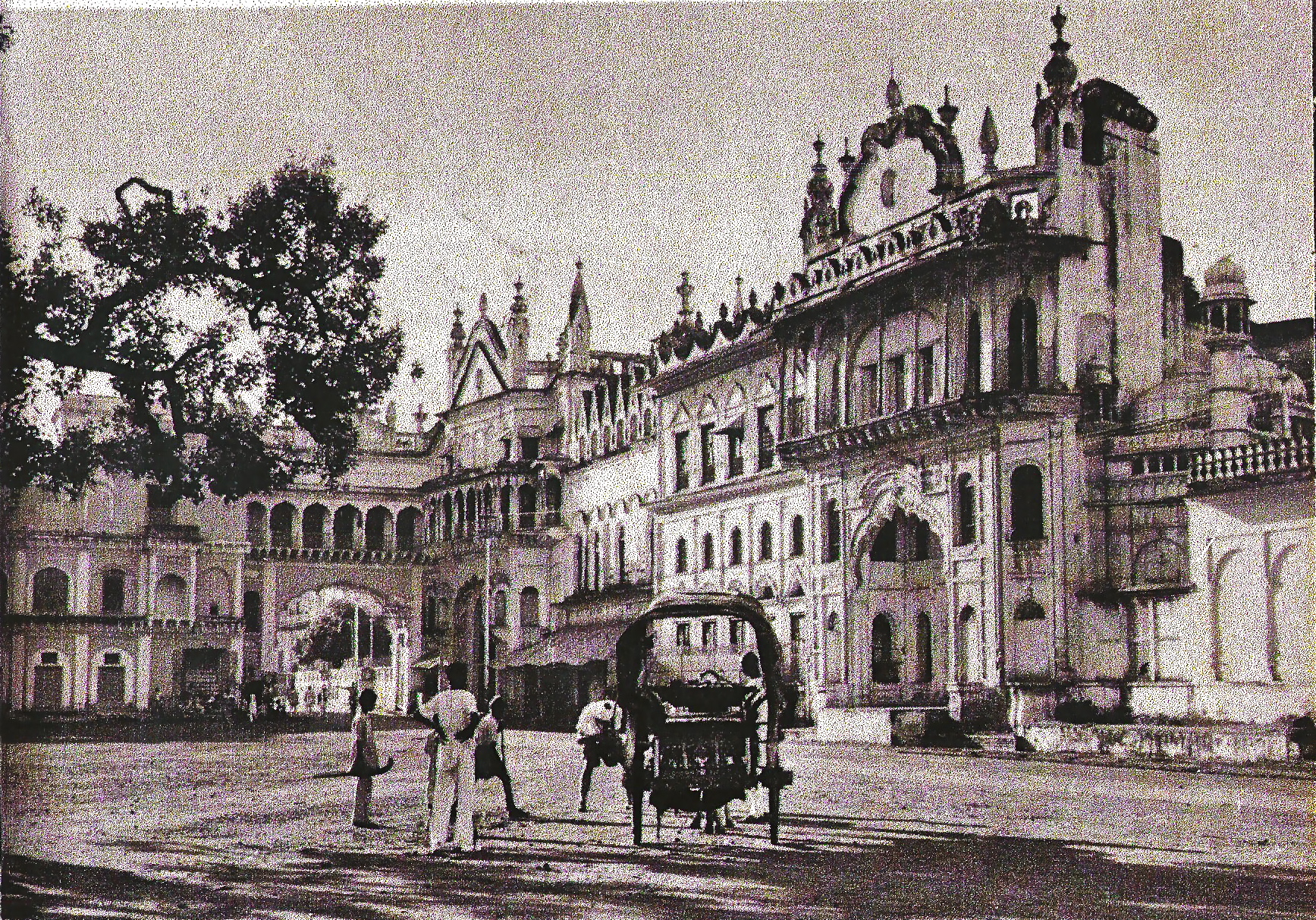 Photo taken in the late XIX century